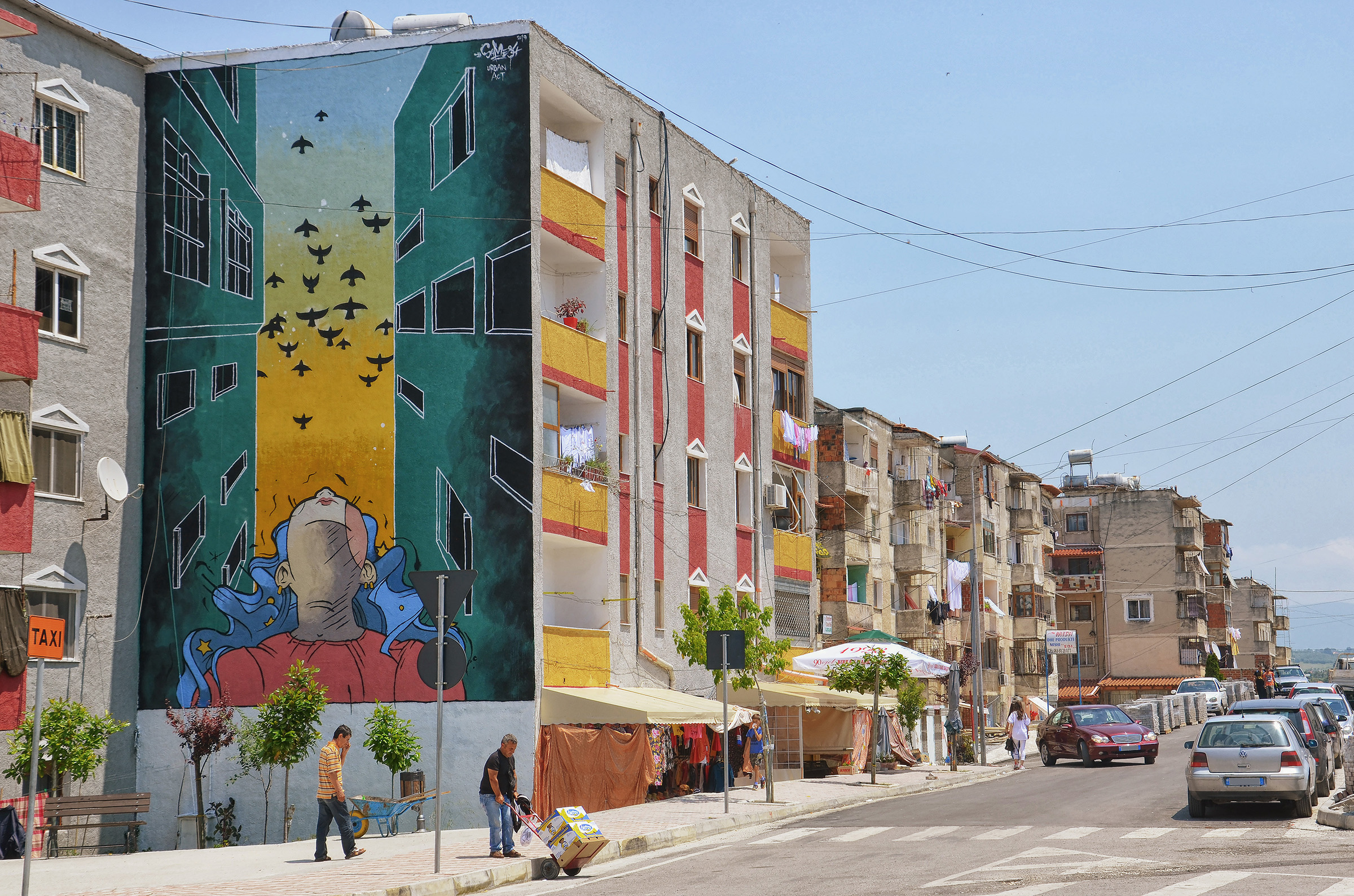 Residential buildings in Patos, Albania in 2019